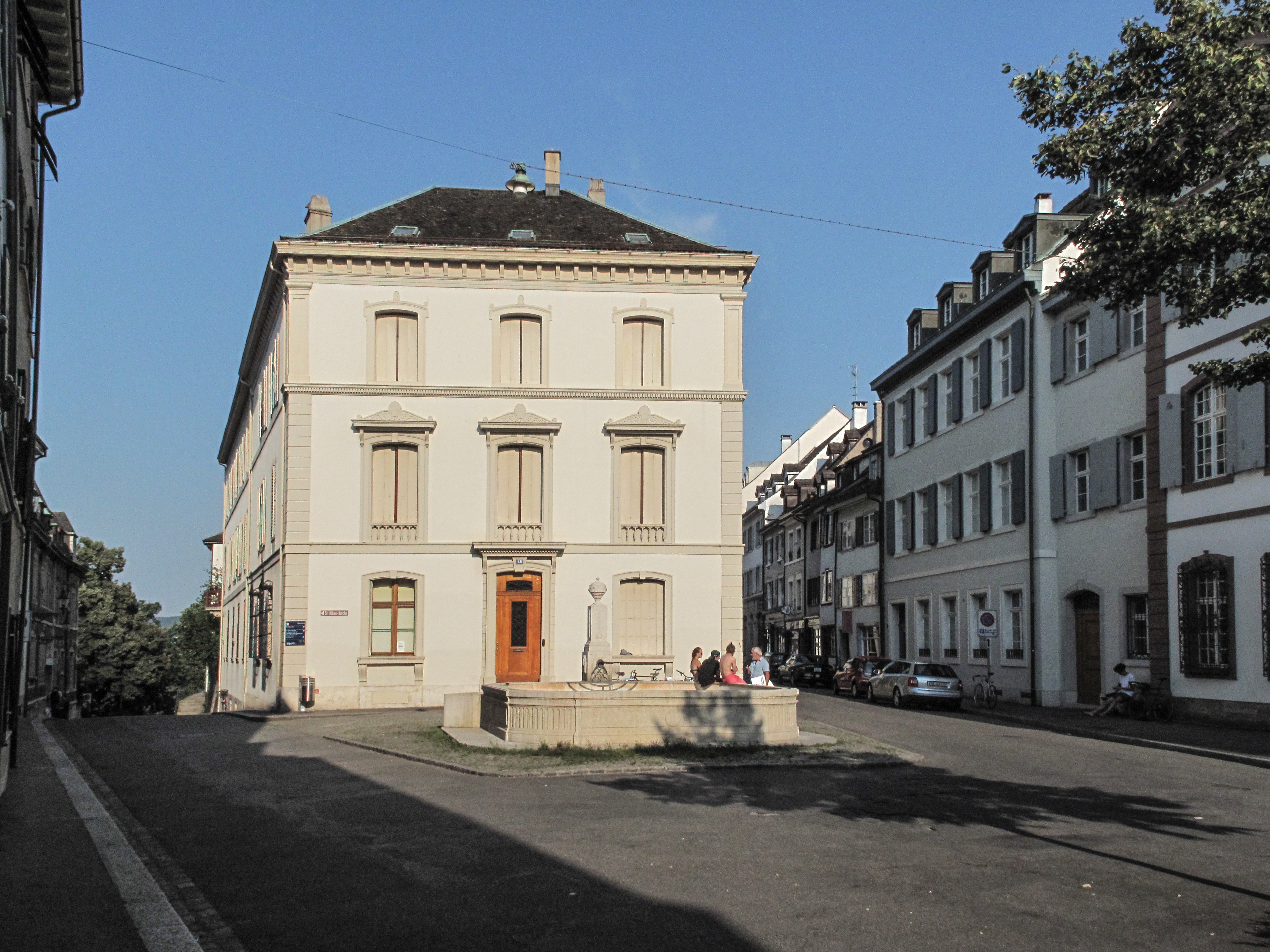 Basel, view to a street near Sankt Alban Vorstadt